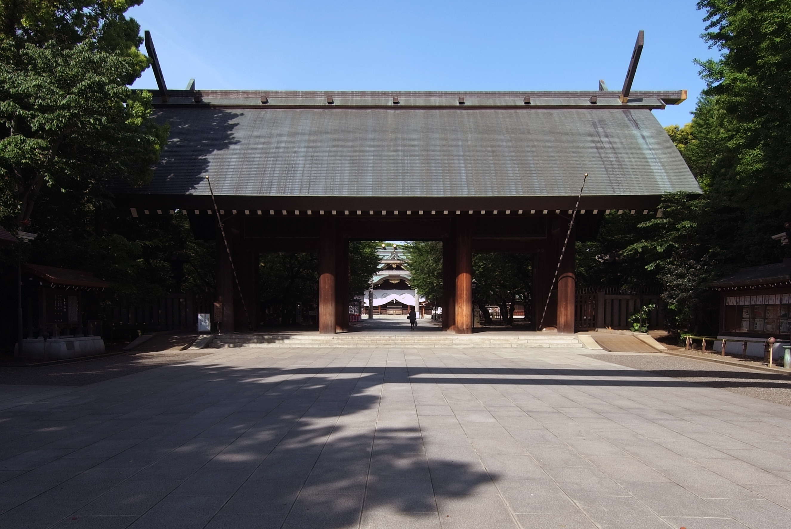 Shinmon (Main Gate) of Yasukuni Shrine in Tokyo.